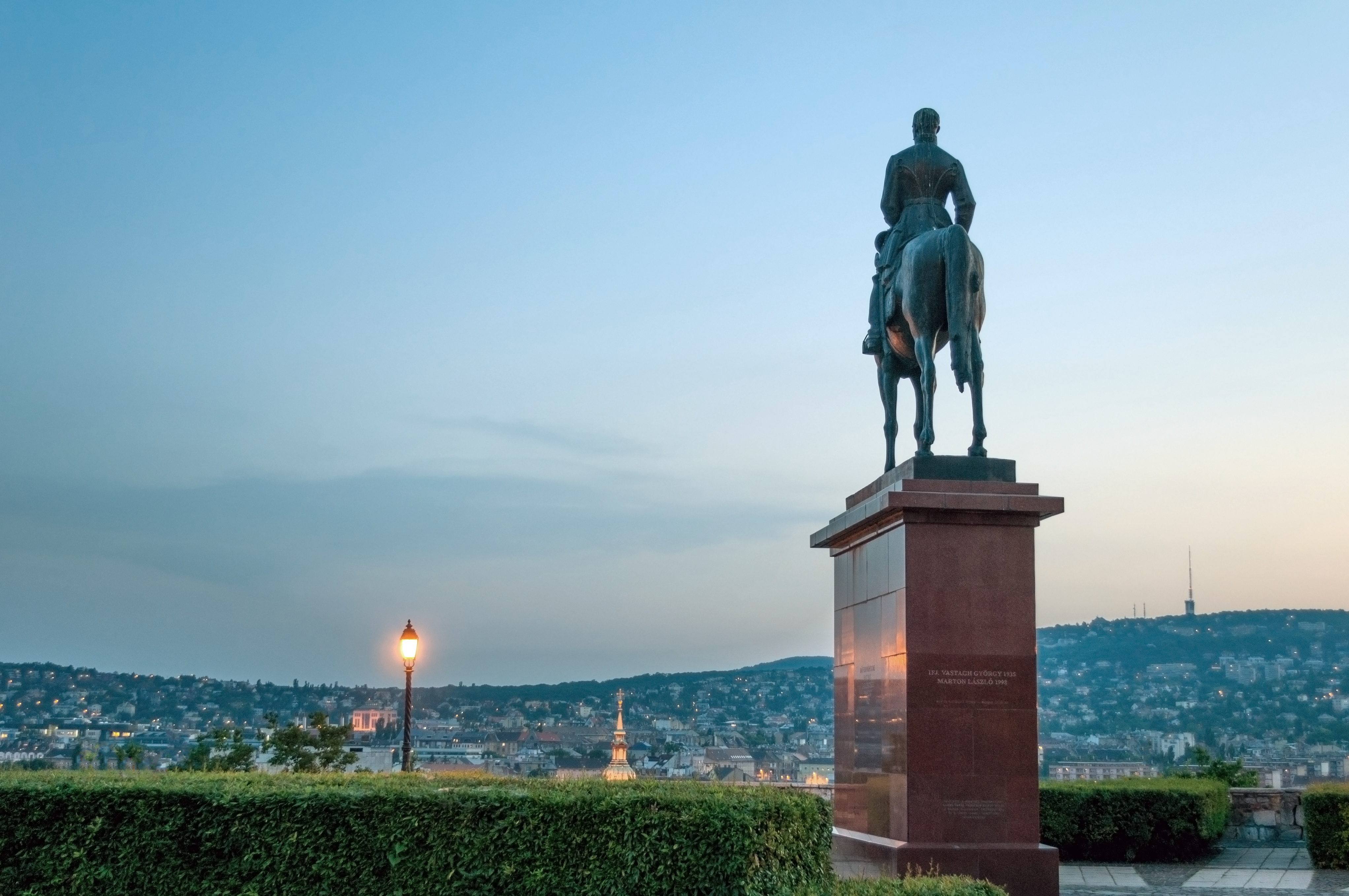 Statue of Artúr Görgei, an equestrian bronze statue, a replica by László Marton in 1998. The original ordered by Gyula Gömbös made by György Vastagh, Jr. in 1935 located on the top of Fehérvári Rondella in Várnegyed neighbourhood (on Buda Castle Hill), Budapest District I.